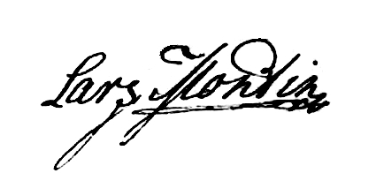 Signature of Lars Montin.